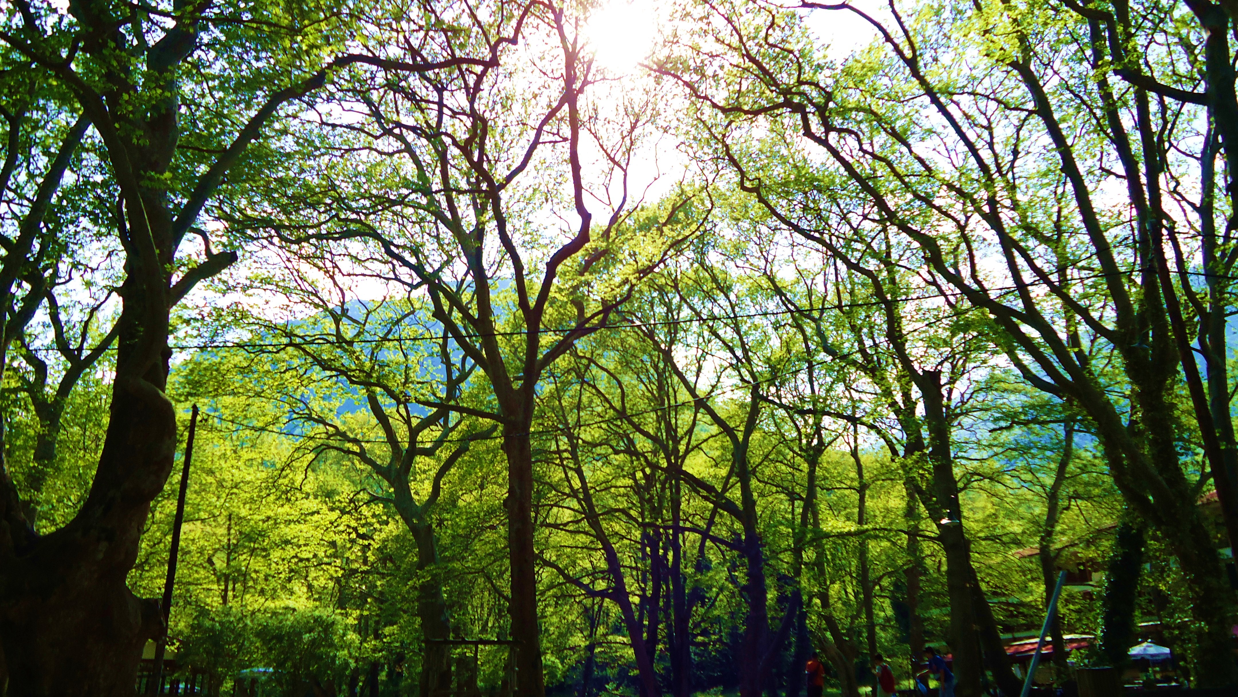 The park of Agios Nikolaos (Saint Nicholas)